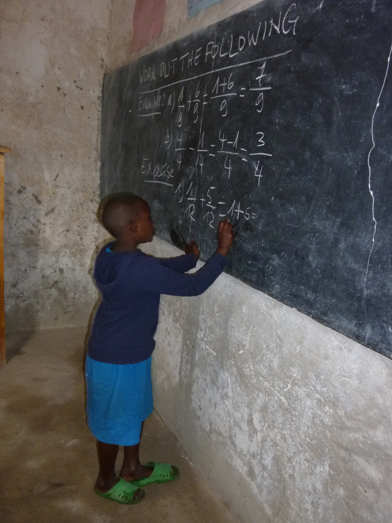 Mpushi School in Rwanda. It receives financial support from the "Your Day in Africa" campaign of the Action Tagwerk humanitarian organisation.